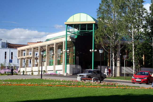 Museum and Exhibition Complex of Small Arms named Mikhail Kalashnikov